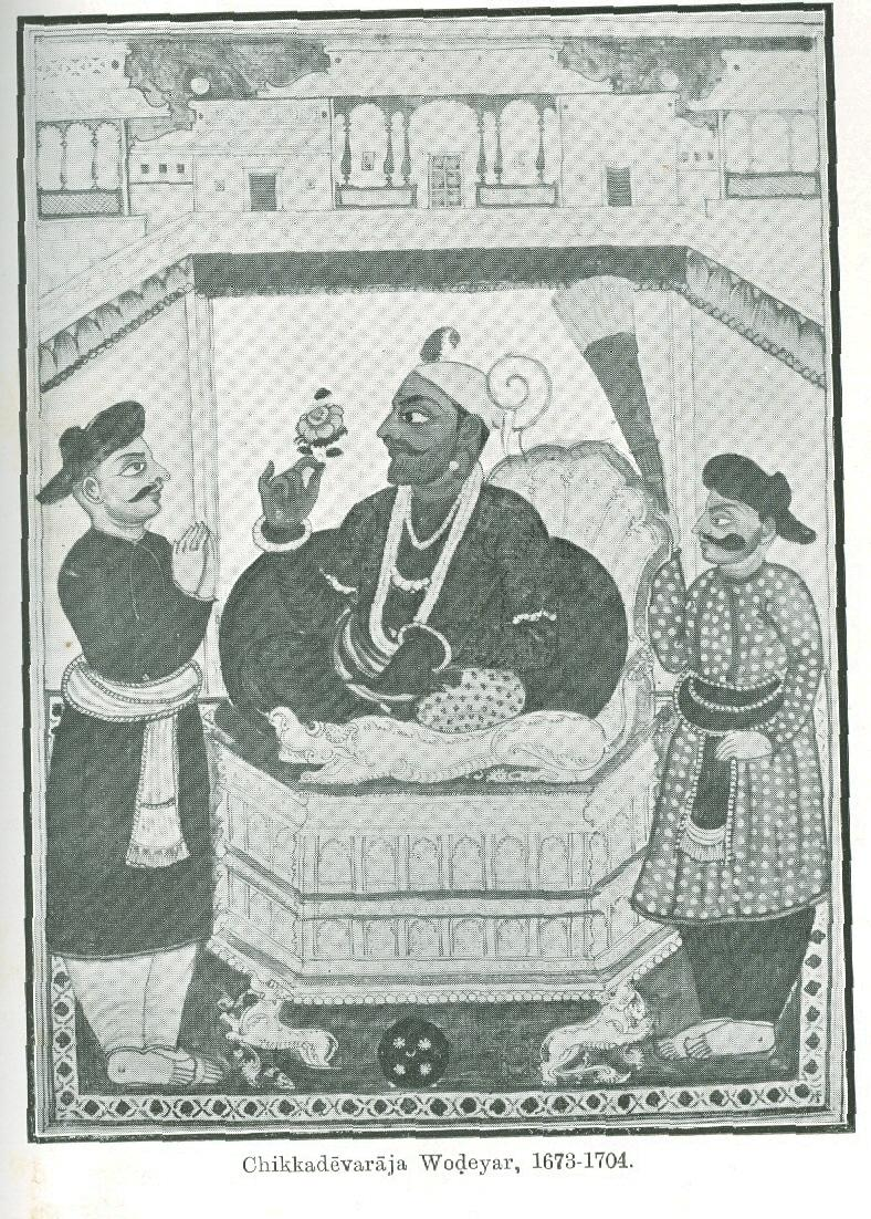 Photograph of early miniature painting of Chikka Devaraja, ruler of Mysore from 1673 to 1704. From C. Hyavadana Rao's History of Mysore, Government Printing Press, Bangalore, India, 1943. Scanned, reduced, and uploaded by Fowler&fowler«Talk» 13:28, 9 February 2009 (UTC)